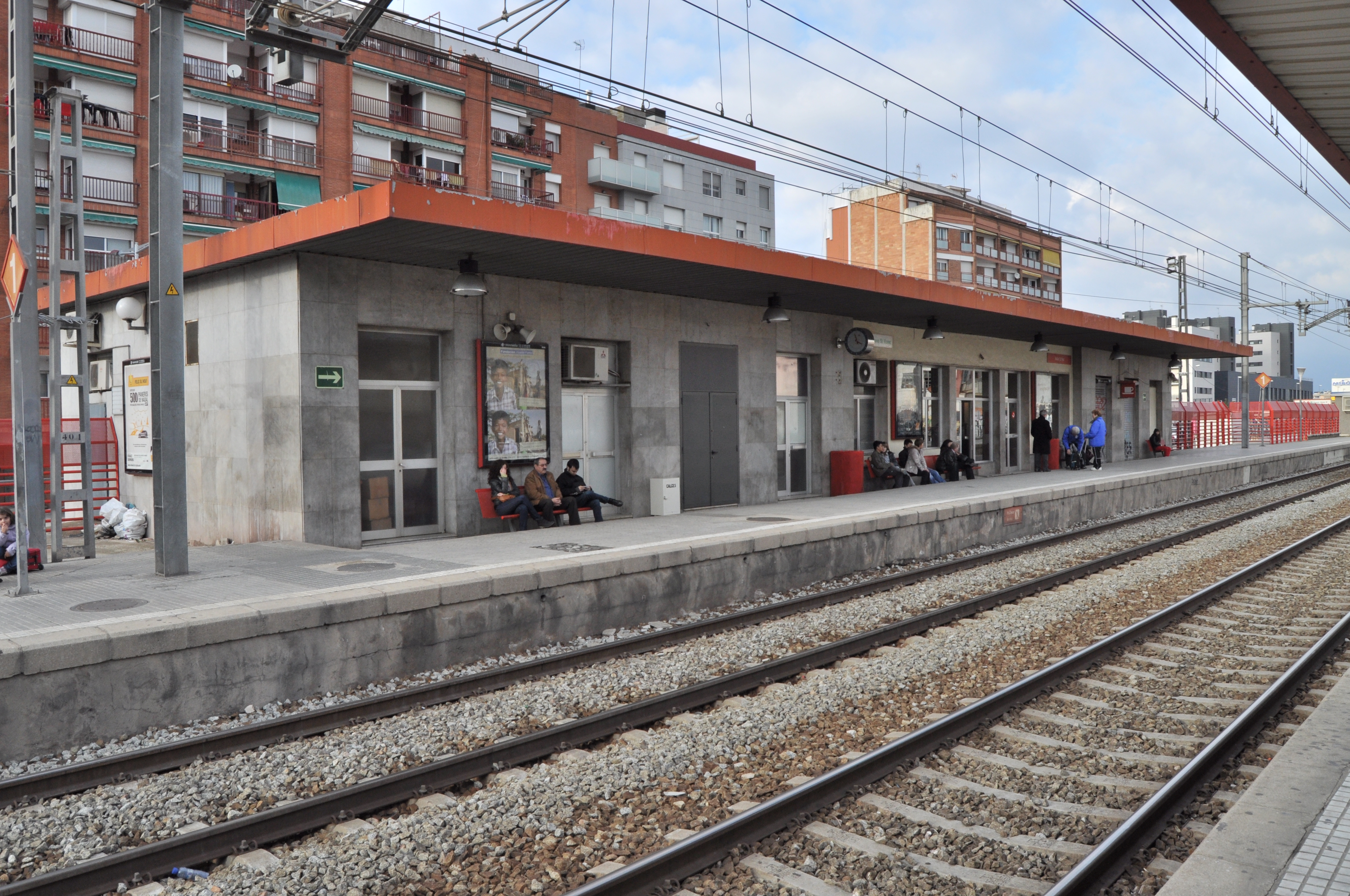 Mollet Sant Fost railway station (Catalonia).